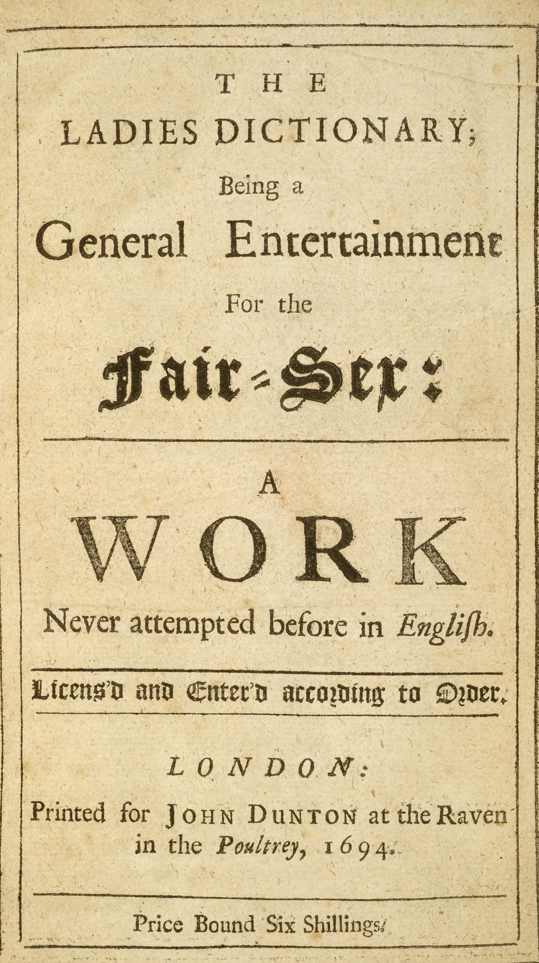 032 LAD